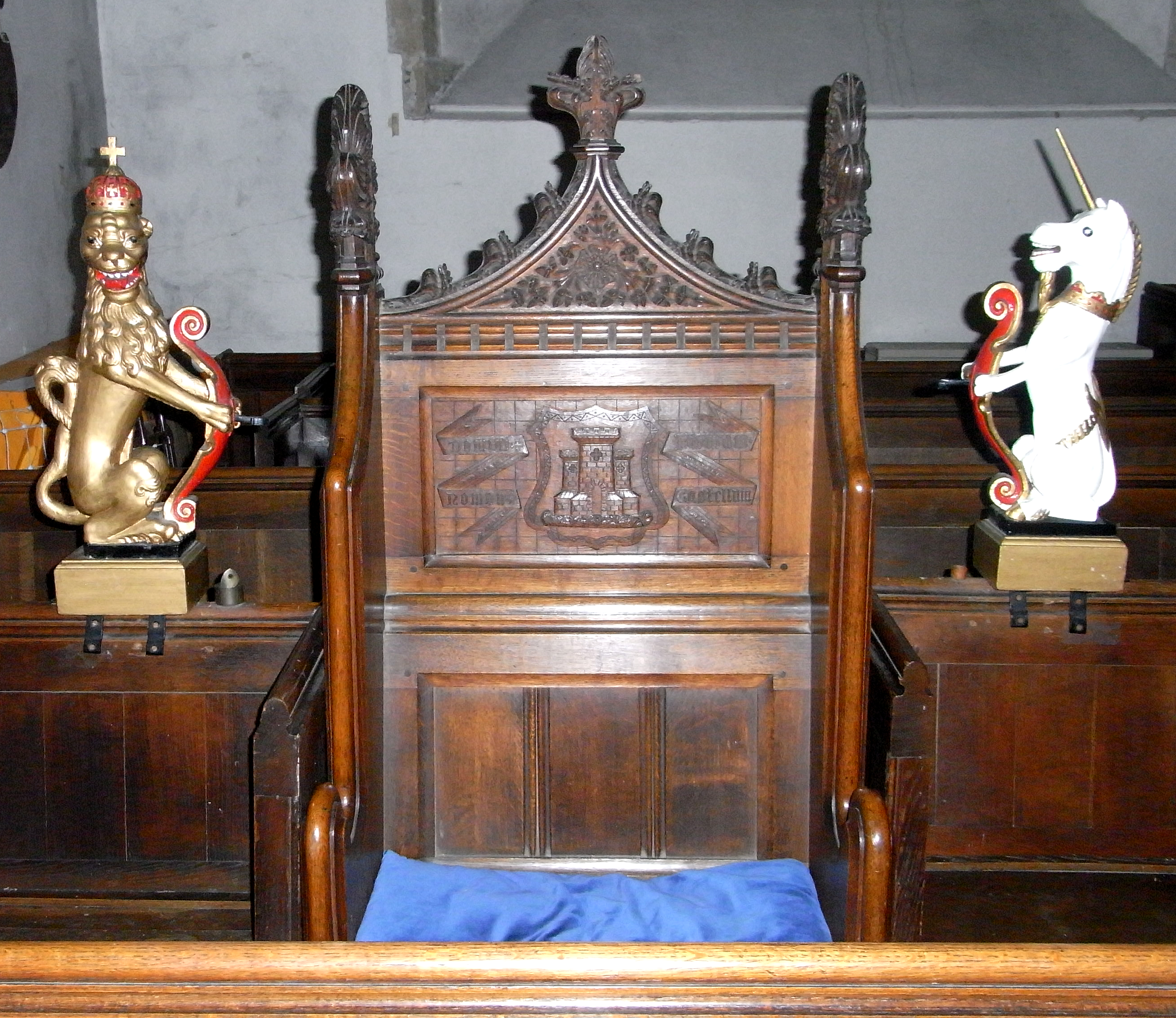 Mayor's Pew in the north transept of SS Peter and Mary Magdalene parish church, Barnstaple, Devon